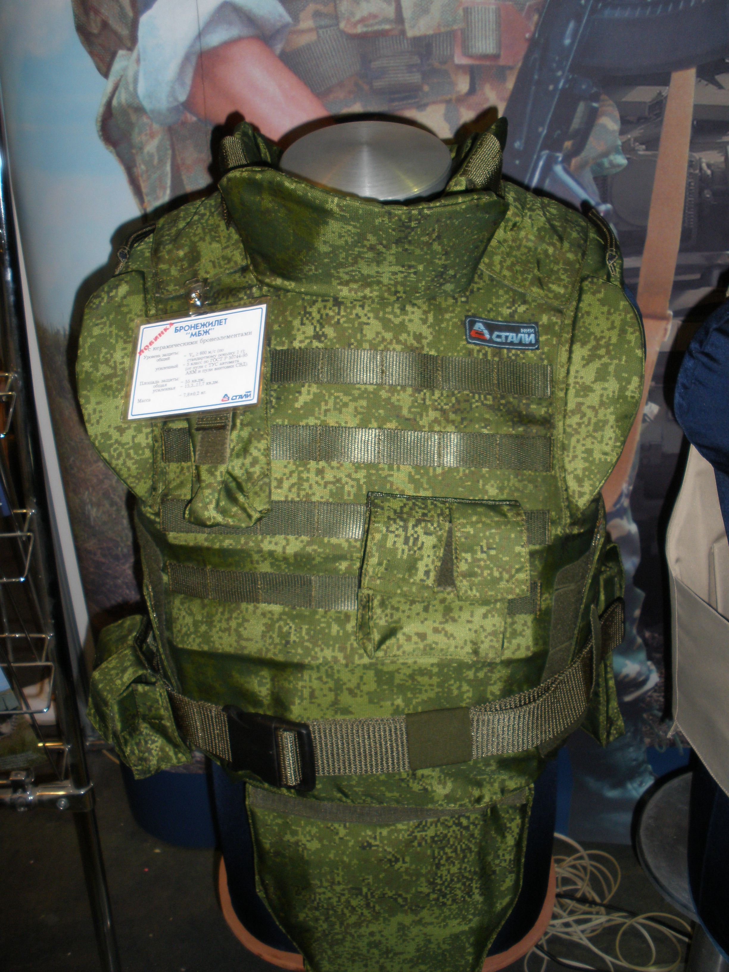 Russian bulletproof vest MBZh at "Engineering Technologies 2010" forum